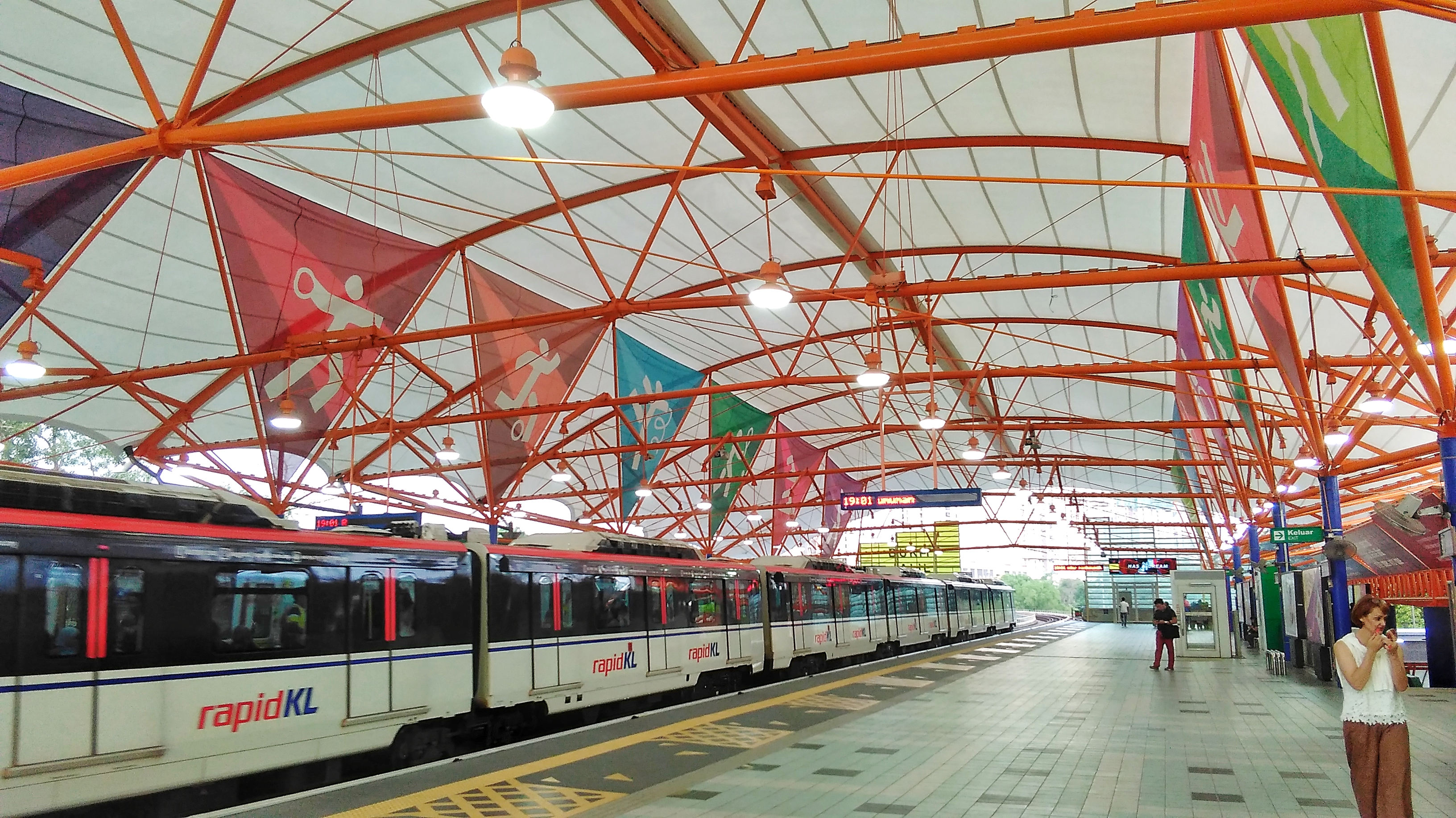 The roof of the station features sports symbolisms.